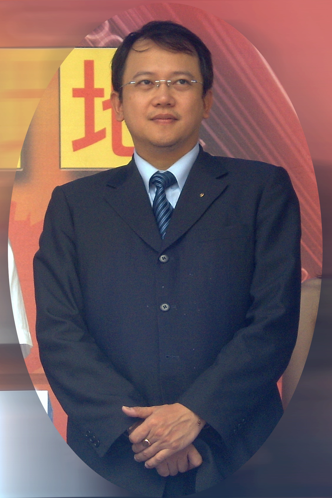 Launch of Guang Hua Digital Plaza: Justin Chou.